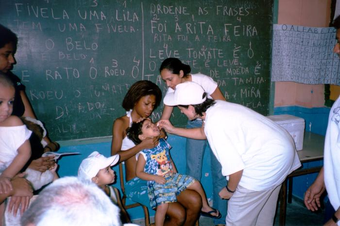 Here Becky Prevots (Cntr) is administering polio vaccine during National Immunization Day in Rocinha, Rio De Janeiro, Brazil. Becky Prevots is a CDC Epidemiologist assigned to Brazil. She’s a member of the Global Measles Branch of the Vaccine-Preventable Disease Eradication Division of the National Immunization Program.